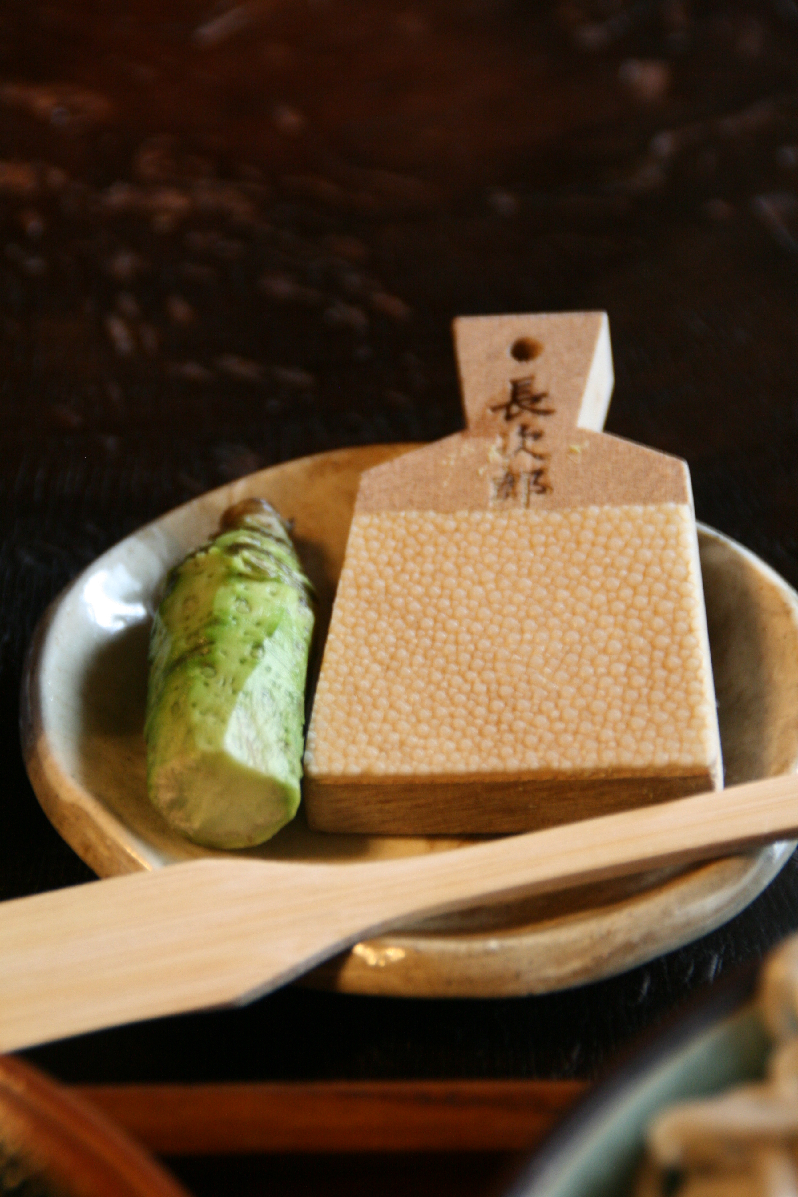 Fresh wasabi